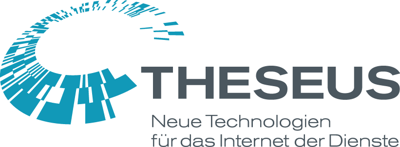 The Federal Government regards new, internet-based methods of acquiring, seeking and processing knowledge as a strategically vital issue in the context of globalised competition. With the help of THESEUS, we aim to improve the competitive position of Germany and of Europe as a whole, with a view to ultimately becoming one of the world’s leading locations for information and communication technology. Opening up new markets with a high growth potential will also create sustainable jobs and economic prosperity in Germany and throughout Europe.